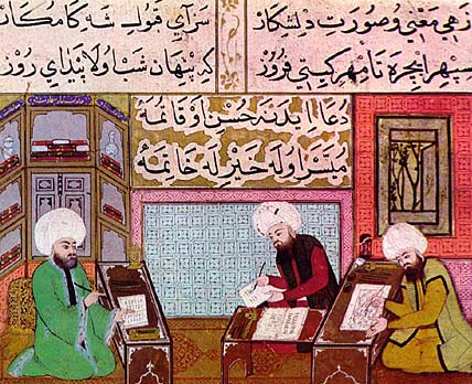 Painting atelier of the Sultan. The miniature shows the author, probably the court chronicler Talikizade, caligraphist and miniature painter working on the "Shahname" for Mehmet III (ruled 1595-1603). The painter on the left is Nakkaş Hasan, who is working on a scene of the capitulation of Eger Castle. Ottoman miniature painter. Topkapı Sarayı Müzesi, Istanbul (Inv. 1609/74a).